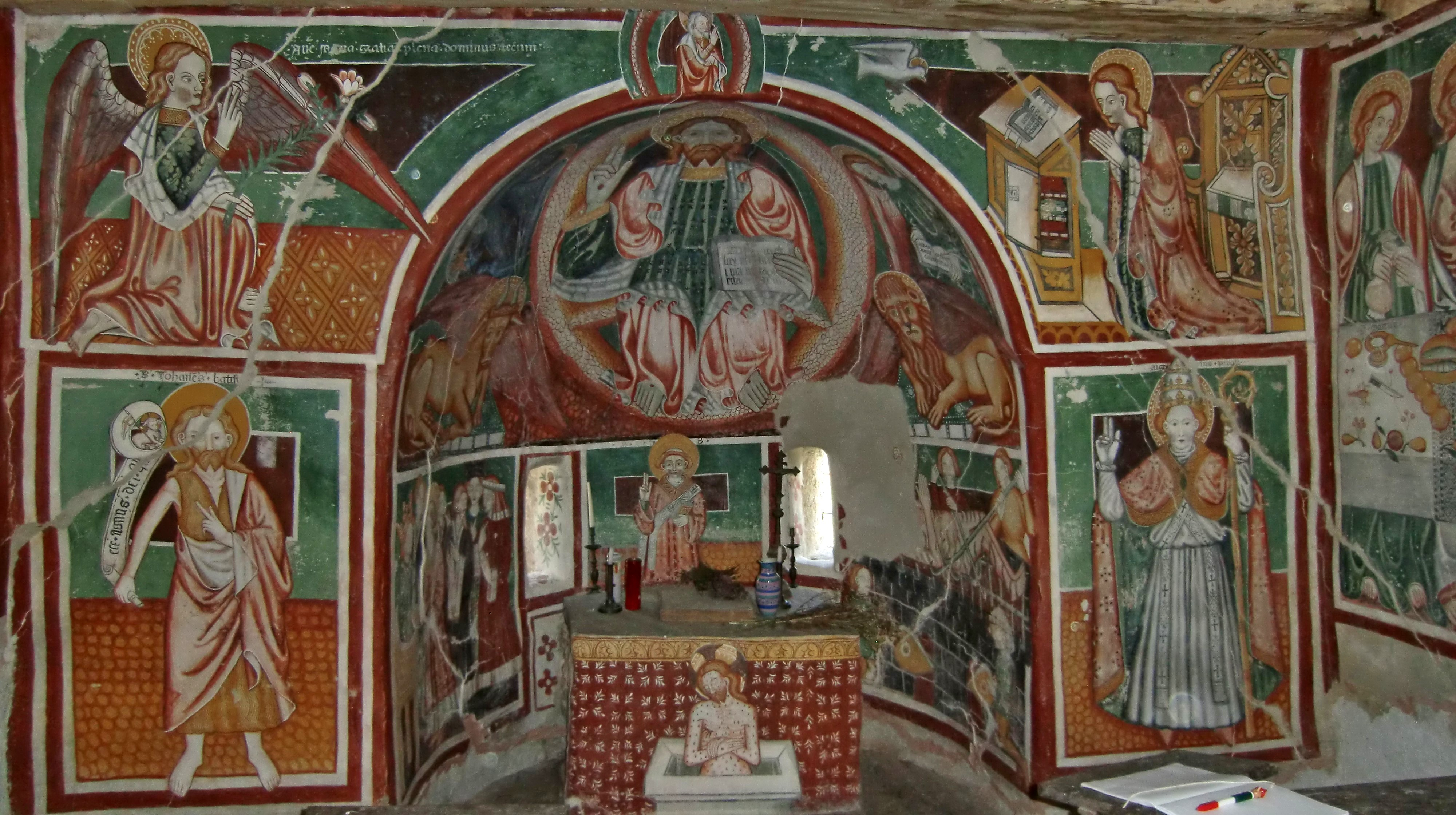 Unknown painter of XV century, frescoes decorating the oratory, 1450 ca, Oratorio di San Lorenzo all'Alpe Seccio, Boccioleto (Italy) Oratorio di San Lorenzo all'alpe Seccio Native nameOratorio di San Lorenzo all'alpe SeccioLocationBoccioleto, Piedmont, ItalyCoordinates45° 51′ 21″ N, 8° 06′ 19″ E Established1446 (Consecrated)